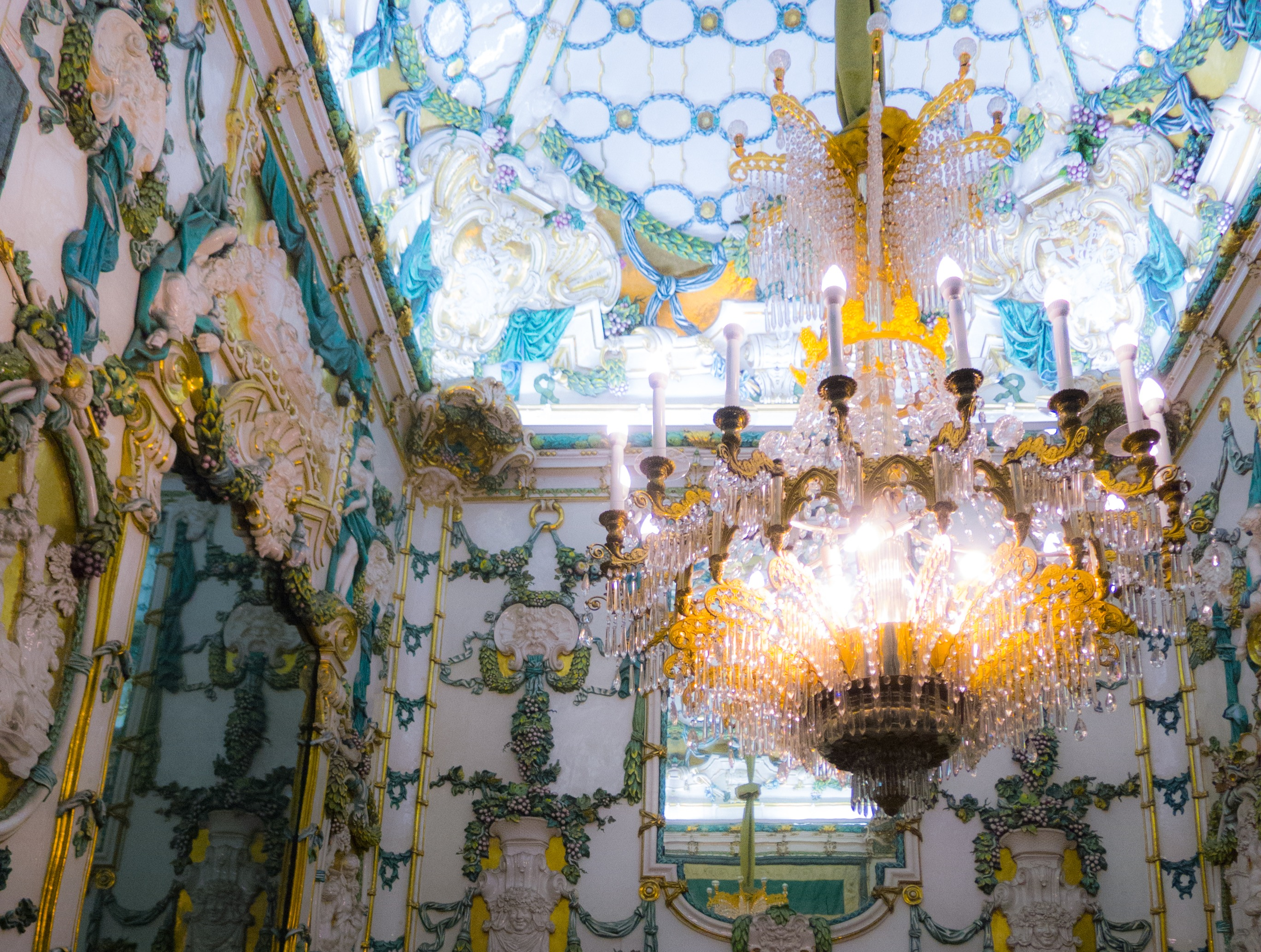 Interior of the Royal Palace of Madrid